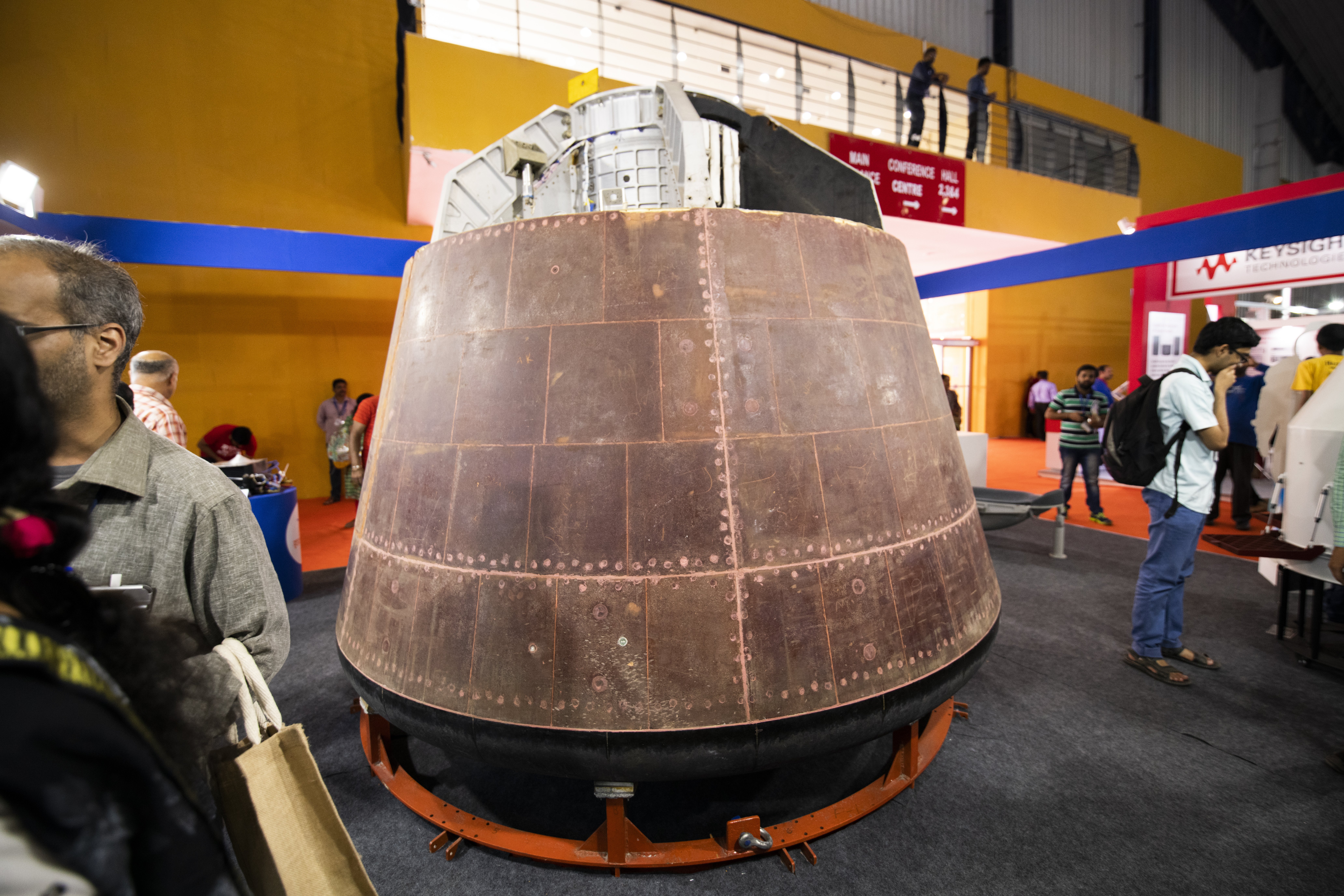 Recovered capsule from Crew module Atmospheric Reentry Experiment (CARE) mission flown on LVM3-X campaign displayed at 6th Bangalore Space Expo 2018, 6-8 September 2018.[1]